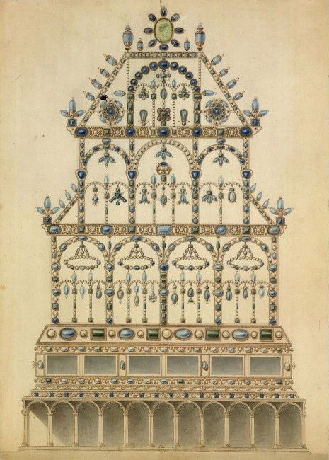 Watercolor by Étienne-Éloi Labarre, 1791, representing the so-called Charlemagne's Screen ("Escrain de Charlemagne" in French), a Carolingian goldsmith work donated by Emperor Charles the Bald (823-877) to the Basilica of Saint-Denis (France). It belonged to the Treasure of Saint-Denis until it was seized and destroyed during the French Revolution, in 1794. The Commission temporaire des arts commissioned the architect Étienne-Éloi Labarre to paint the watercolor to document the work before its destruction. The watercolor is kept in the National Library of France (BnF, Estampes et Photographie, Le 38-C-Fol). The work represented was a masterpiece of Carolingian goldsmithing and was destroyed because of its high value: it was made of gold with seven hundred pearls, two aquamarines, eight rubies, eleven amethysts, twenty-two garnets, one hundred thirty-five emeralds and two hundred and nine sapphires.